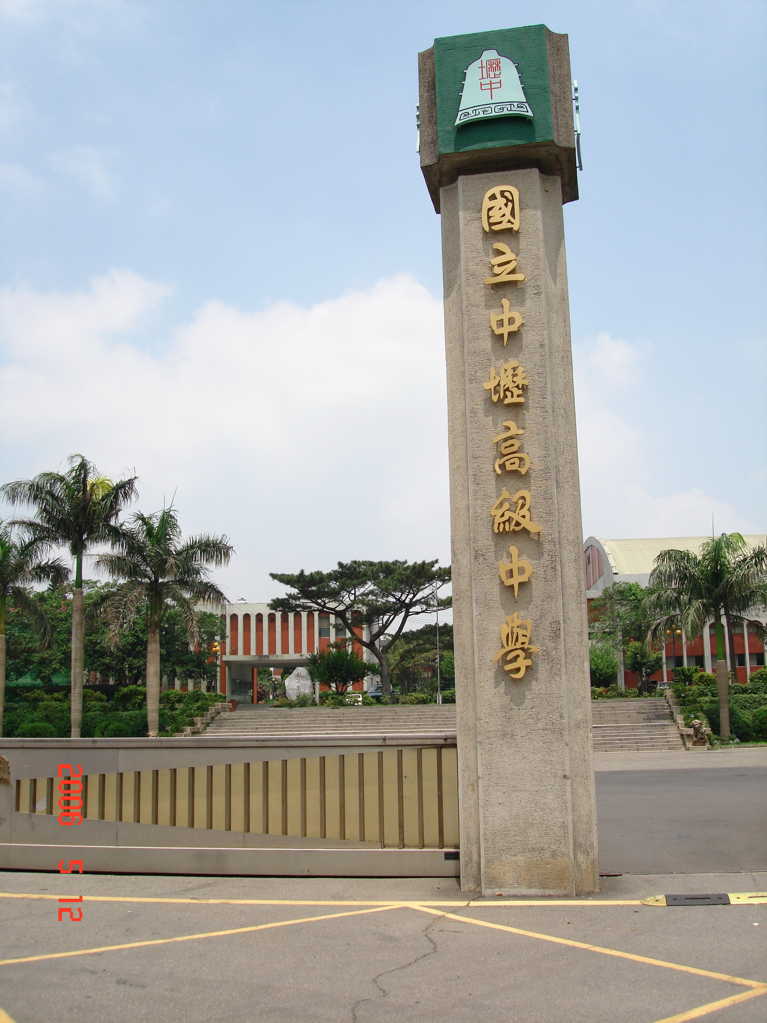 National Chung Li High School, Jhongli City, Taoyuan, Taiwan.